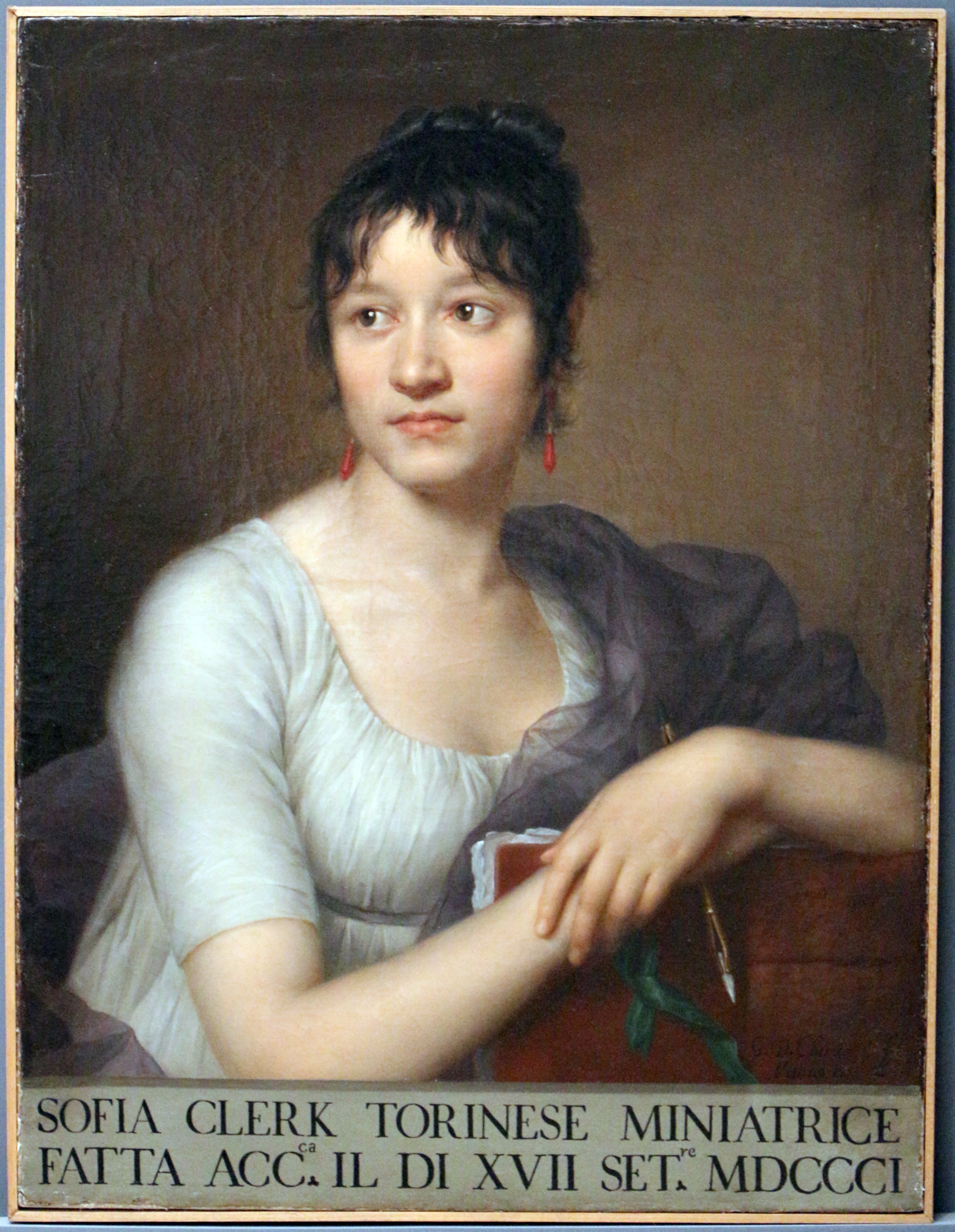 Accademia di San Luca - Gallery